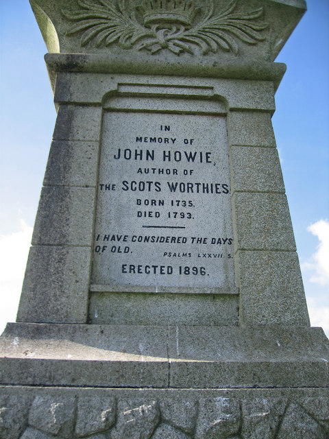 Lochgoin Monument. Close up of inscription on the monument 1499953.